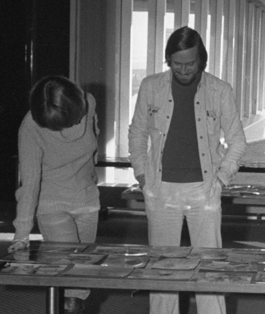 Huub van Es judging photographs, Zilveren Camera 1977, Schiphol